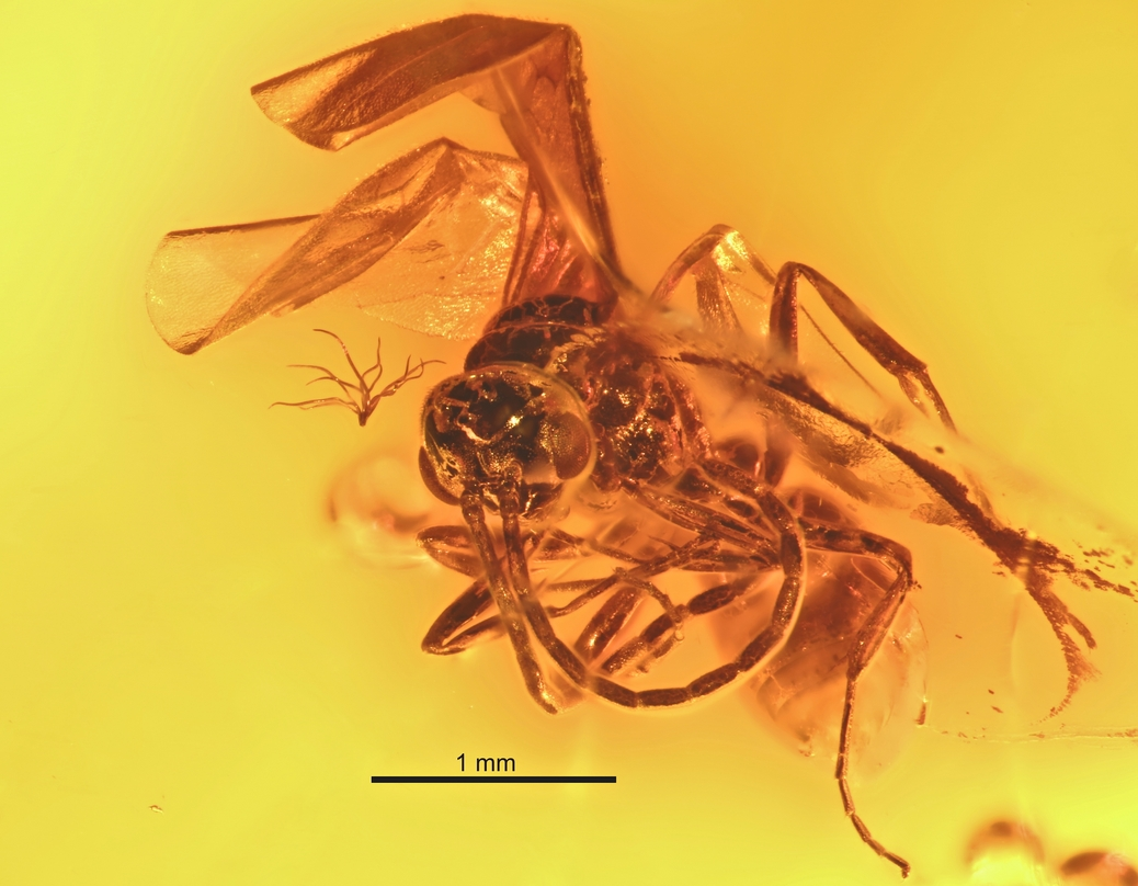 Profile view of a Pachycondyla succinea" male. Specimen BMNHP29202; British Museum of Natural History Baltic Amber, Middle Eocene; Samland Peninsula?, Baltic Region, Europe.